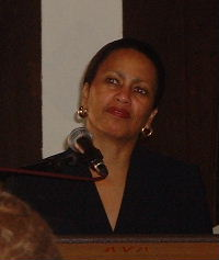 Beverly Malone. Taken by Rod Ward at "Transforming Healthcare: Nursing Leadership as the Critical Success Factor" 25th September 2003 King Alfred's College, Winchester